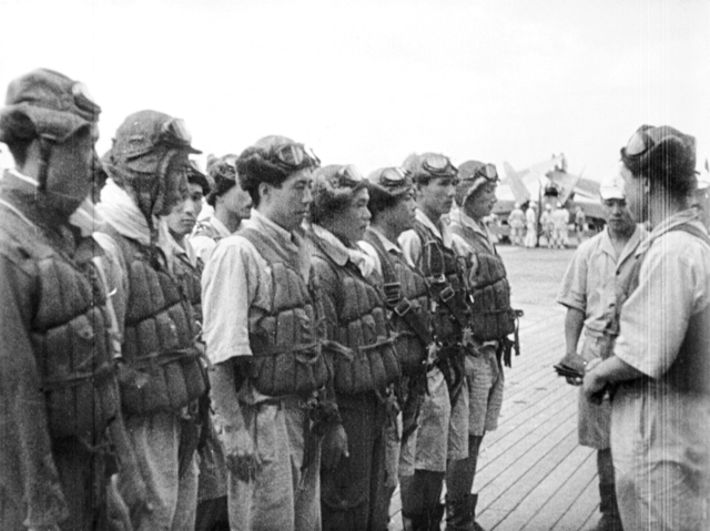 A group of Imperial Japanese Naval pilots lined up on the deck of an aircraft carrier during the Battle of Santa Cruz, probably being briefed before taking to their aircraft.